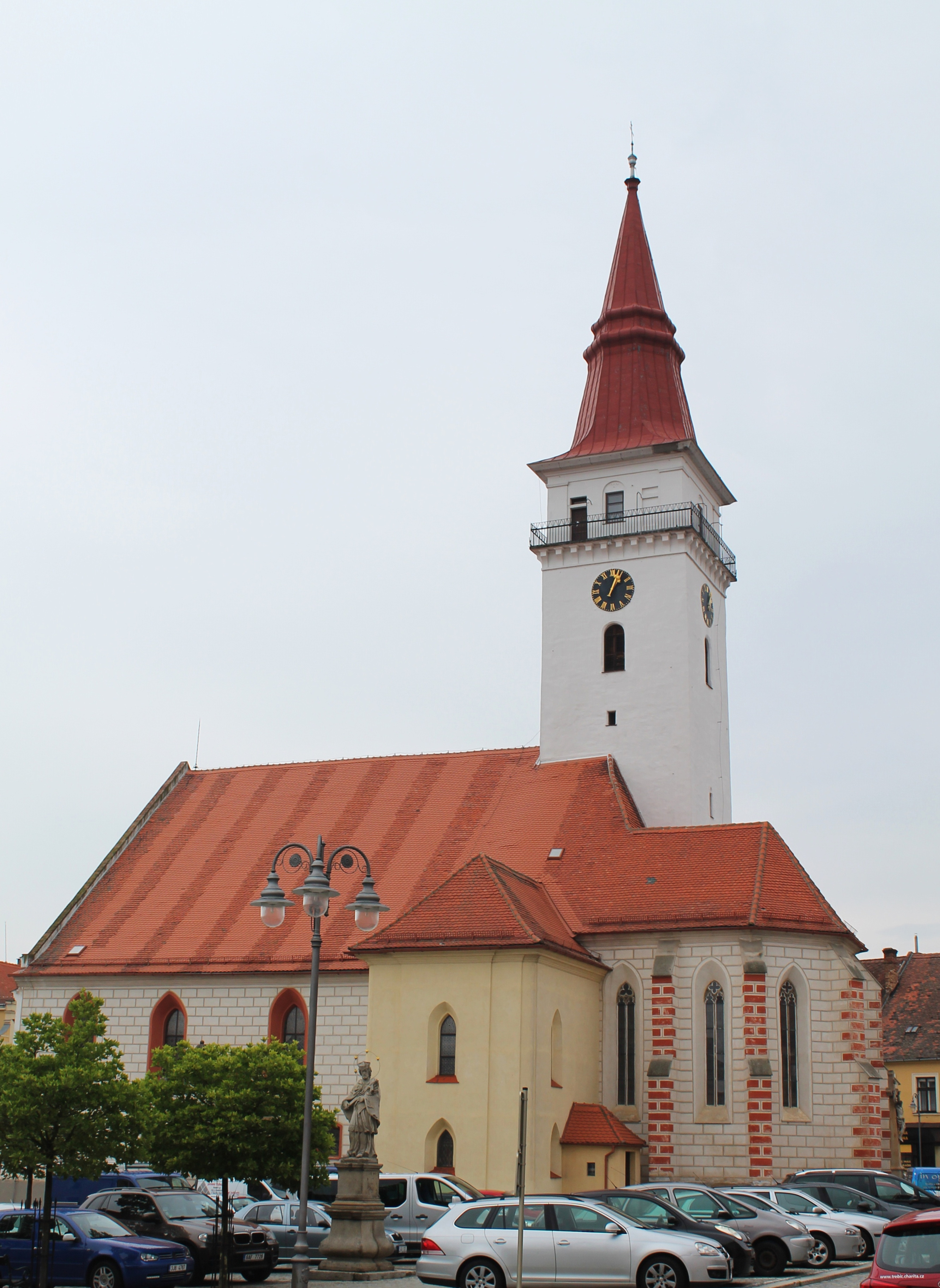 Church of Saint Stanislaus, Jemnice, Třebíč District, Czech Republic